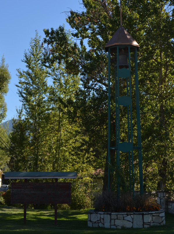 Bell donated by Rev Cushing Eells in 1892 to the Congregational Church in Chewelah, Washington.